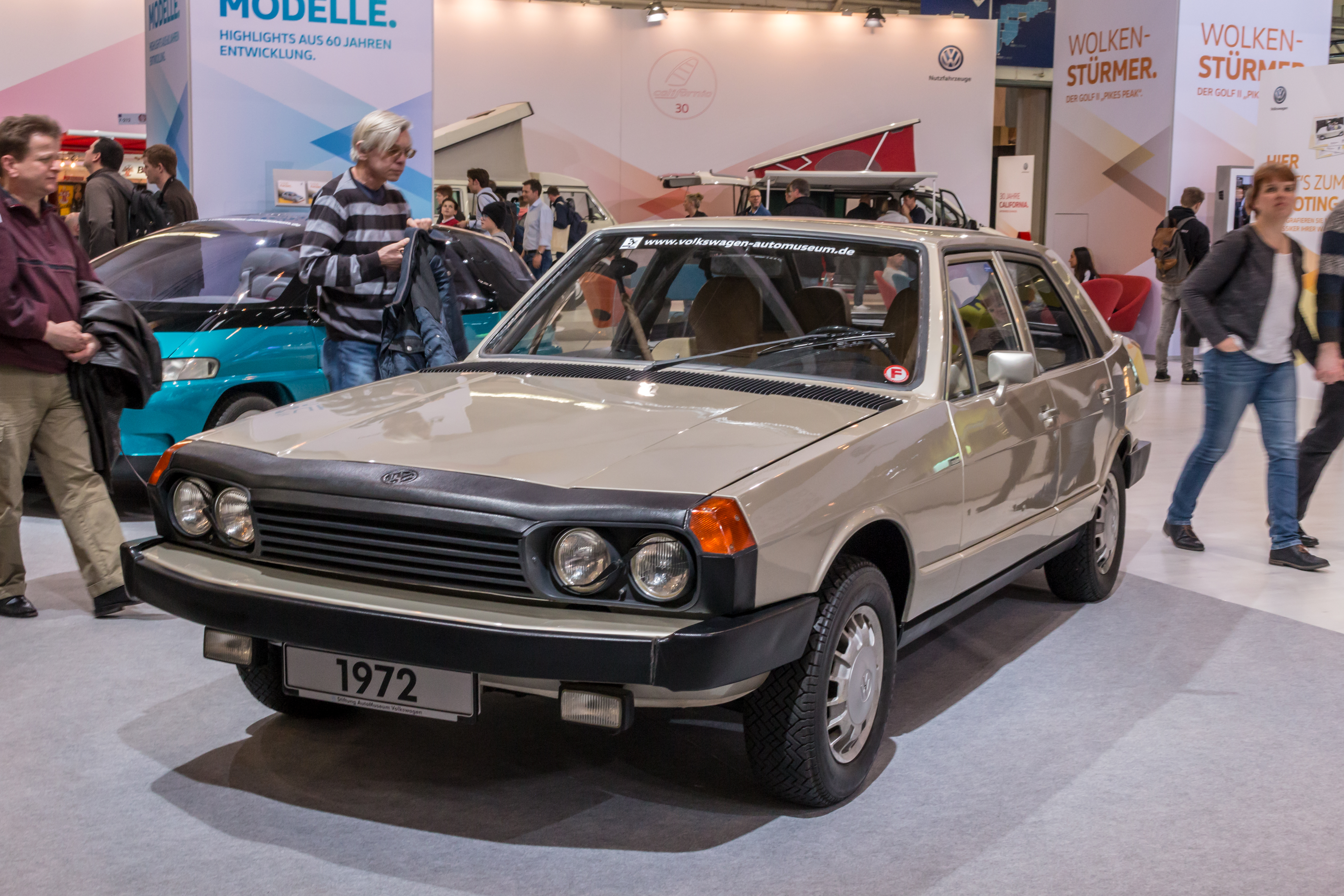 Techno Classica 2018, Essen